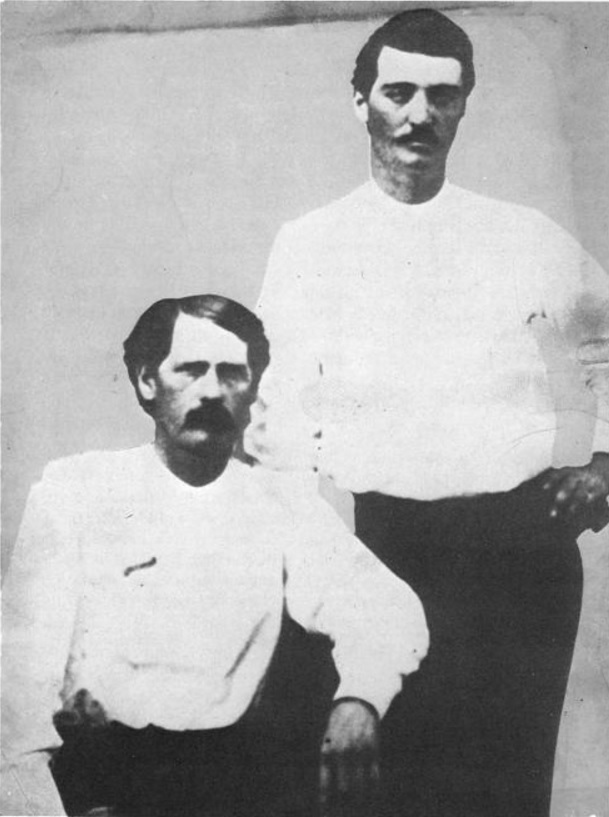 Bat Masterson (standing) and Wyatt Earp, Dodge City lawmen, 1876. Bat's hand rests on the butt of his six gun, holstered for cross draw. Courtesy Jack DeMaattos collection.